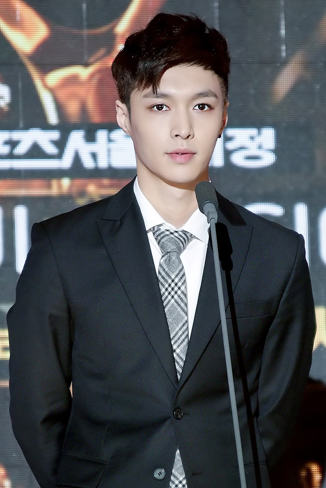 Lay Zhang at Seoul Music Awards on January 22, 2015.